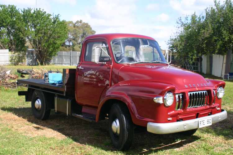 A photo of a Bedford J1 Truck taken by Duncan Margetts